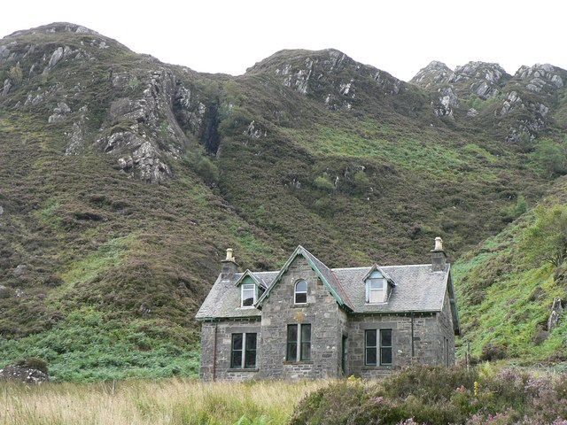 Old School on Eilean Shona, Inner Hebrides, Scotland. Students used to have to come by boat to this school.